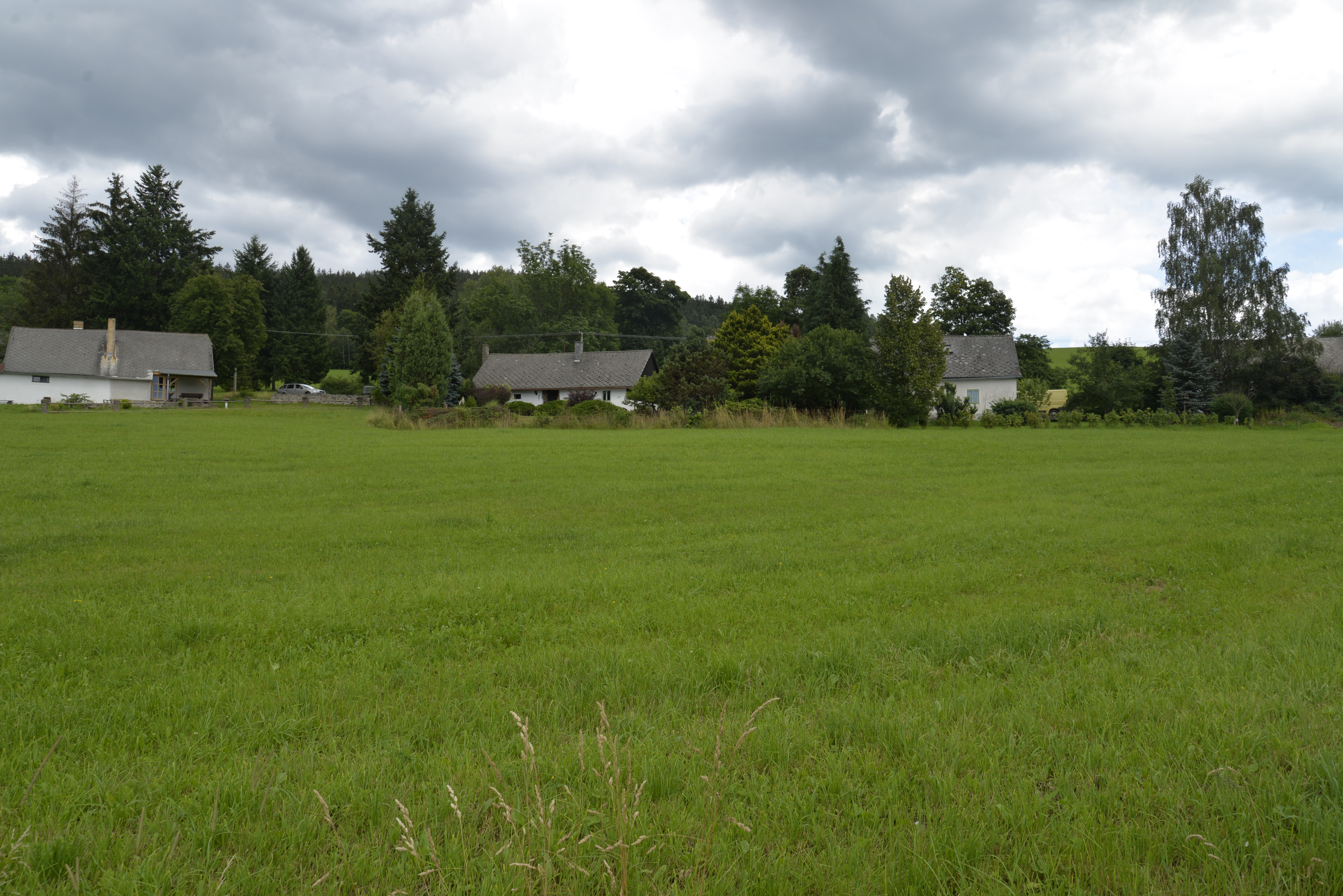 Chamutice - small village, part of in